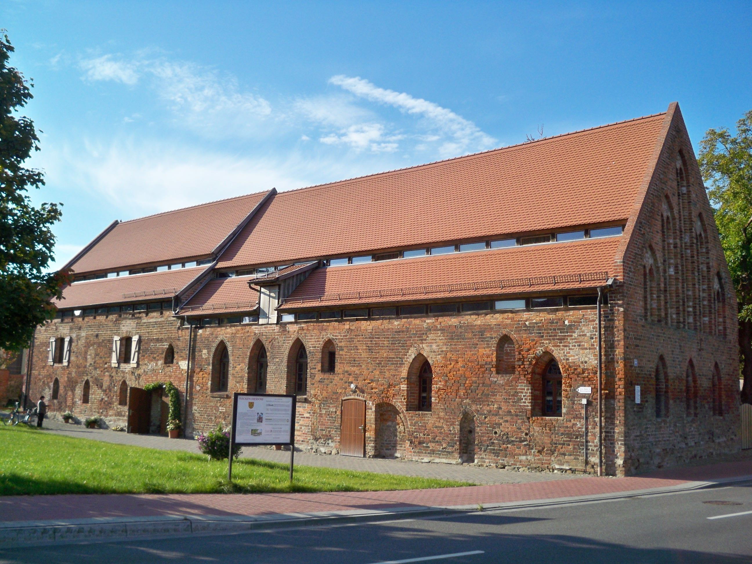 Diesdorf, Saxony-Anhalt, Alte Darre (Oast house), part of former monastery, used e.g. as brewery and bakery, nowadays a museum